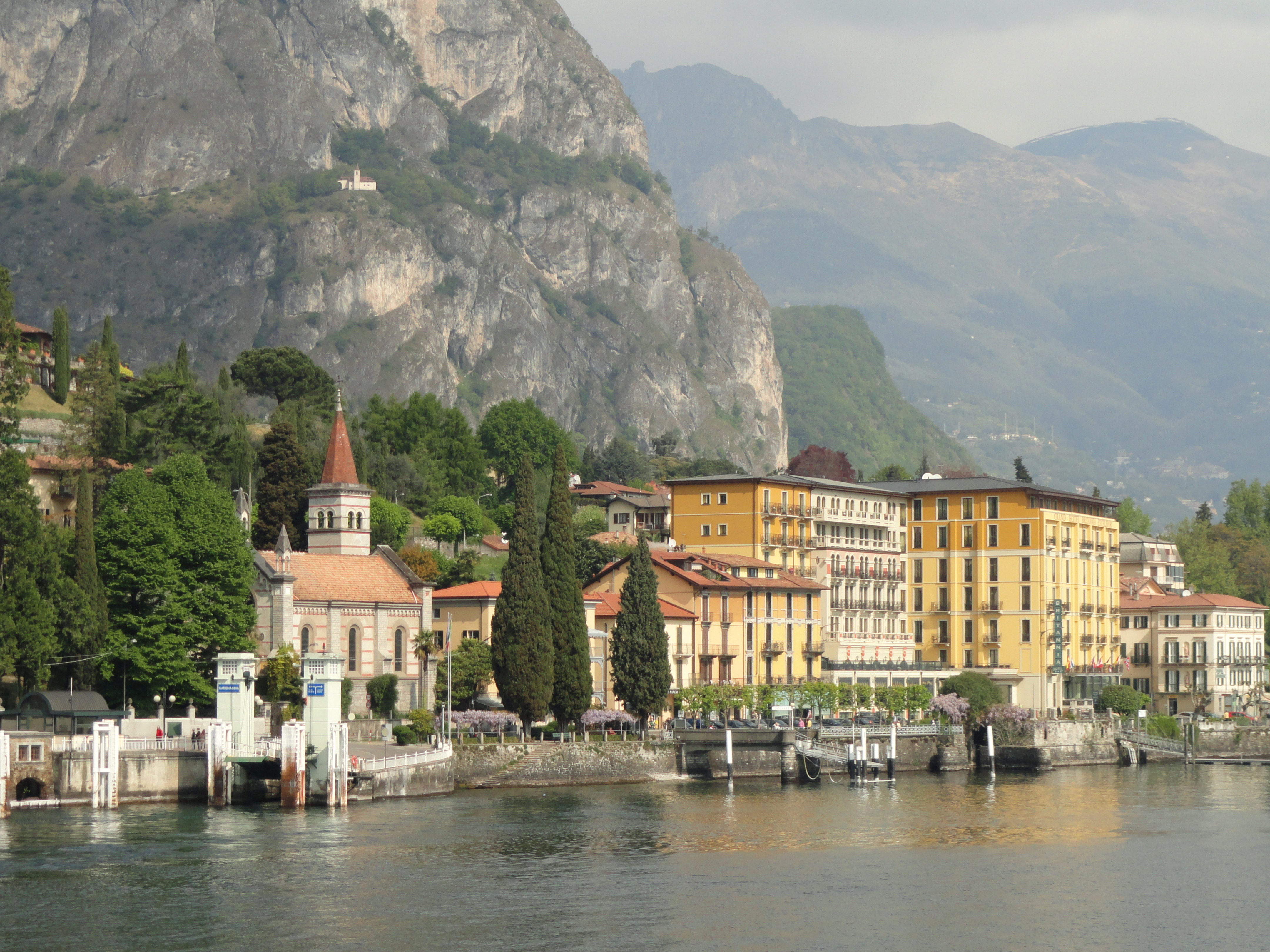 Cadenabbia on Lake Como, Italy.